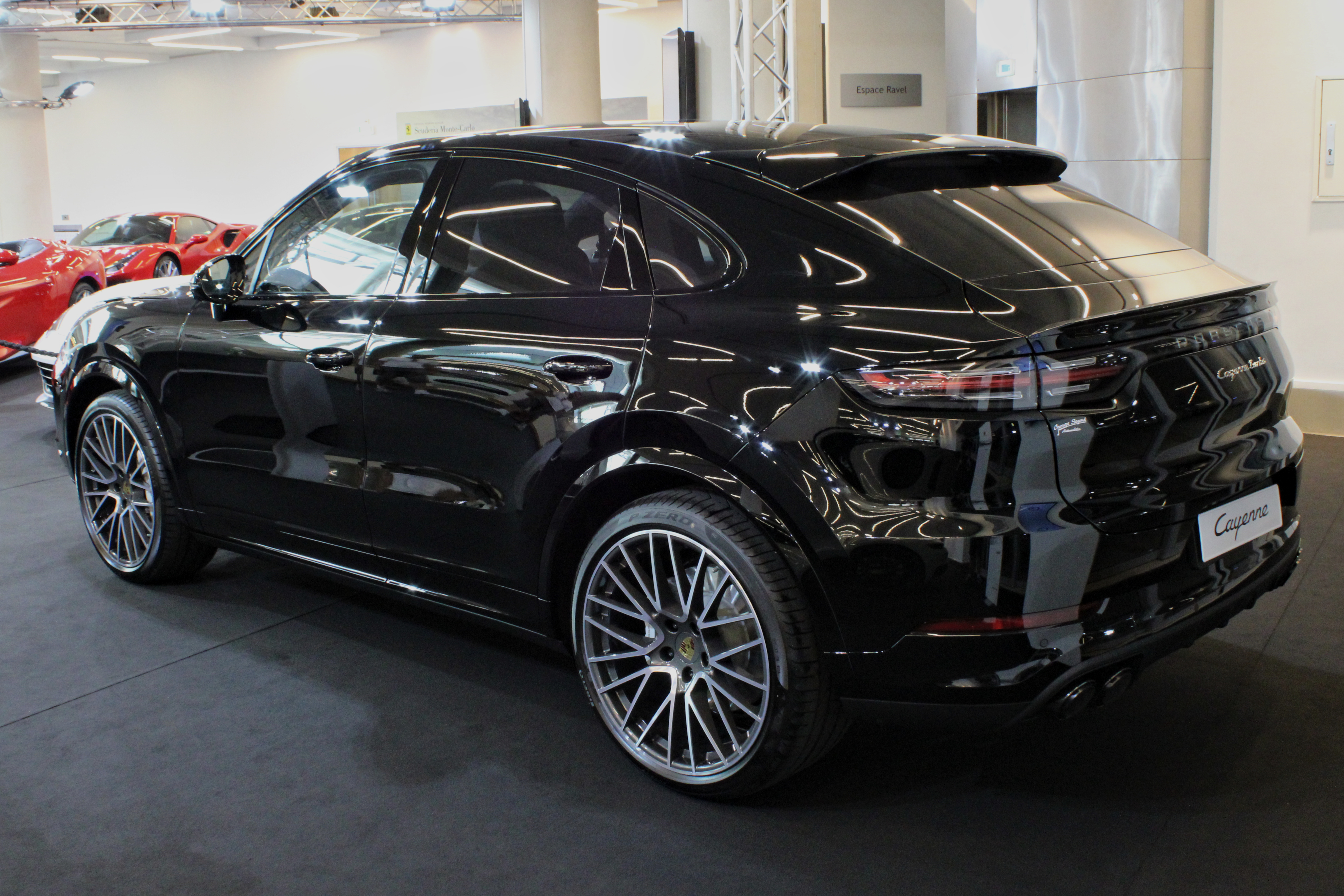 Porsche Cayenne Coupé at Top Marques 2019